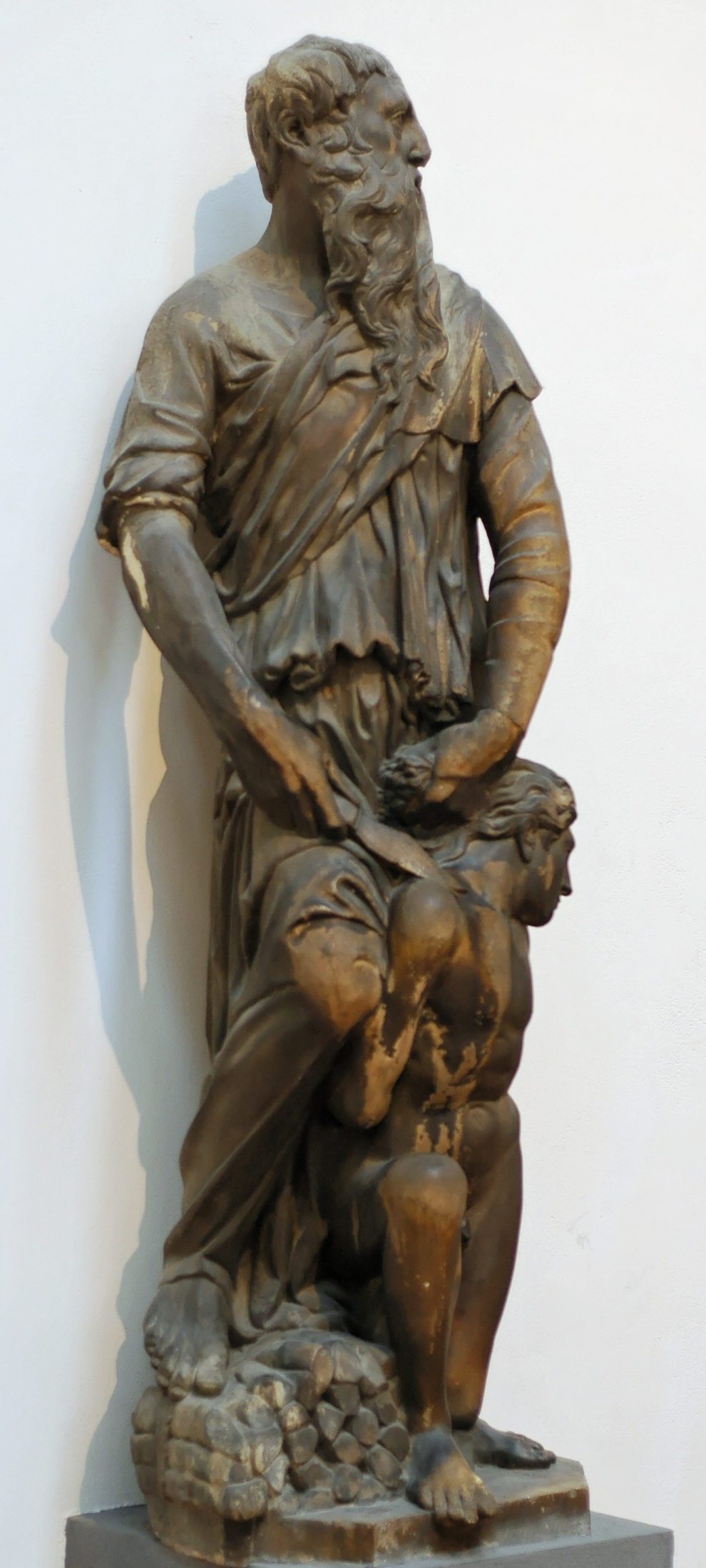 Abraham about to sacrifice Isaac. From the bell tower of the Duomo of Florence, Italy. Marble, Museo dell'Opera del Duomo.